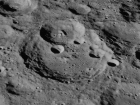 Oblique view of Seyfert, facing northeast, on the far side of the moon.